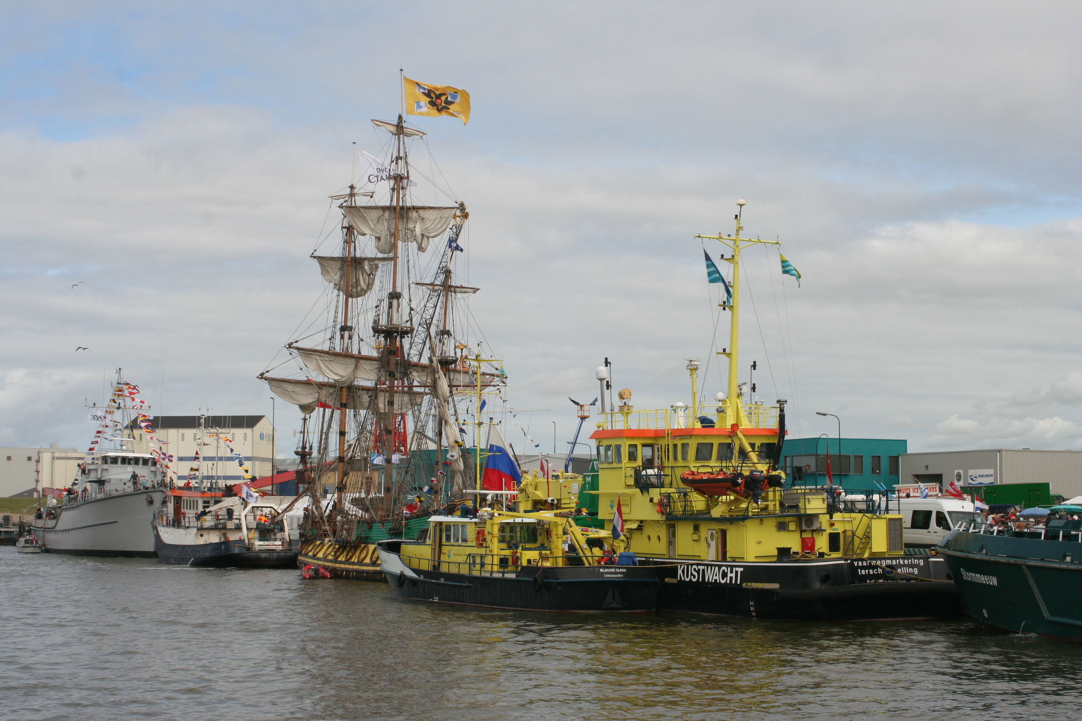 Several boats in the harbour, exhibition 2008 (Fishermen days, Visserij Dagen))